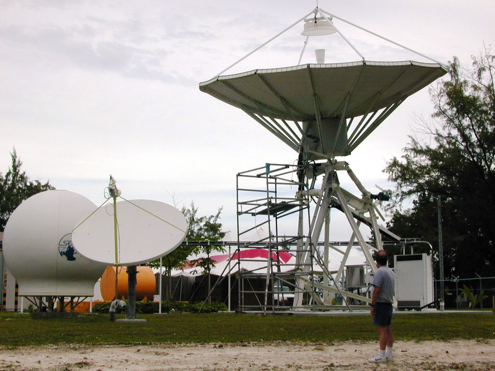 Communication systems at hydroacoustic station HA08, British Indian Ocean Territory (BIOT), U.K of the International Monitoring System of the Comprehensive Nuclear-Test-Ban Treaty Organization Preparatory Commission. Copyright CTBTO Preparatory Commission